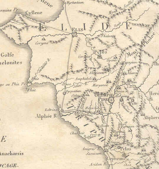 Historical map of Ilida, Greece